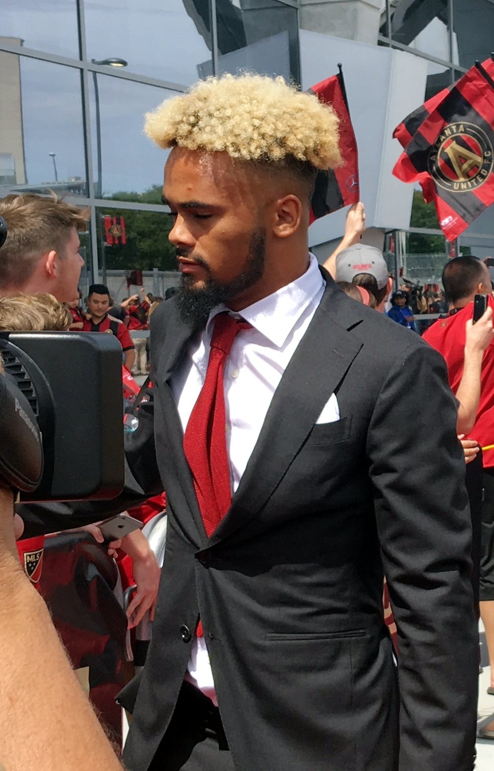 Anton Walks after signing the Golden Spike for Atlanta United on September 10, 2017